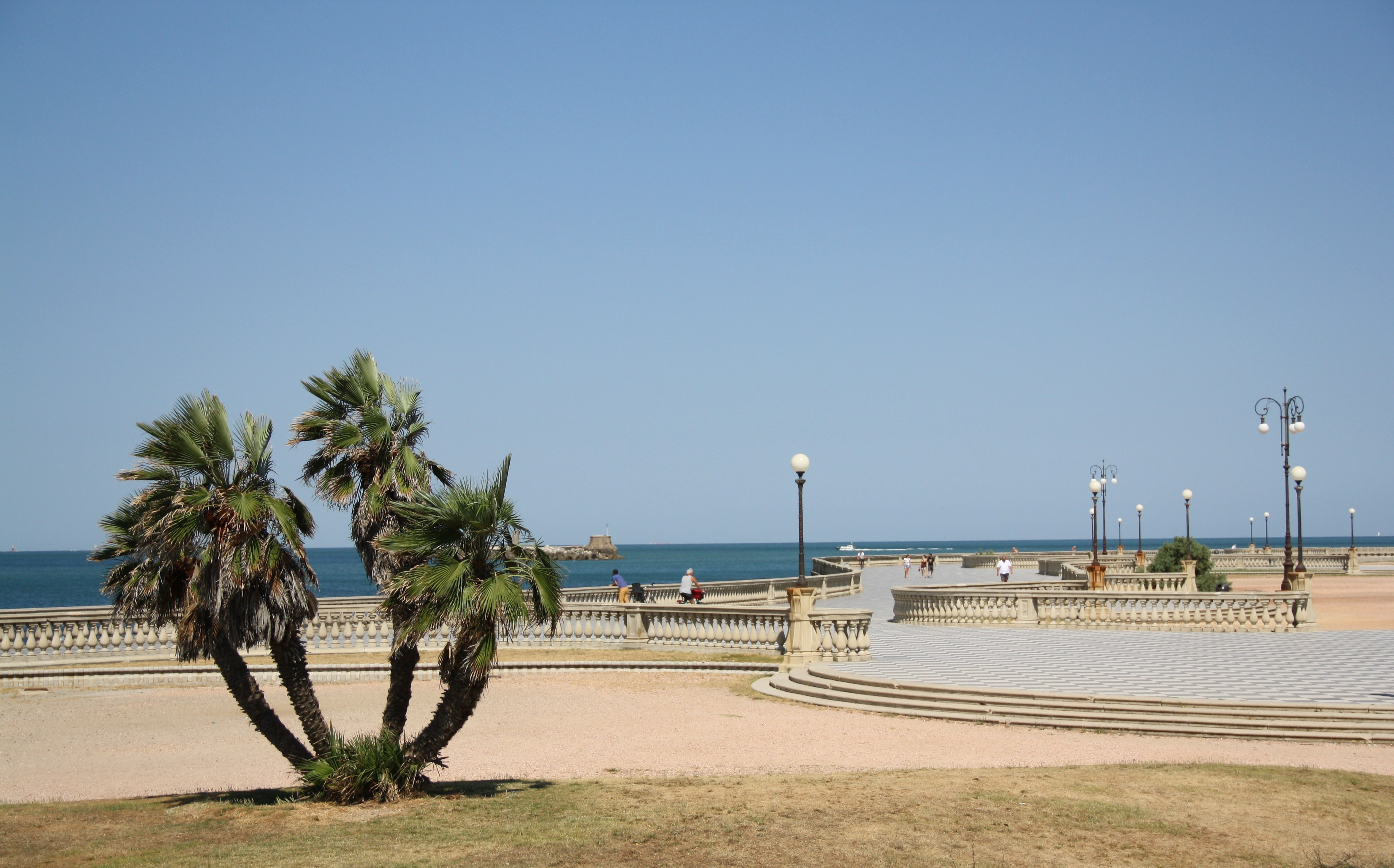 Italy, Livorno. View of Terrazza Mascagni.